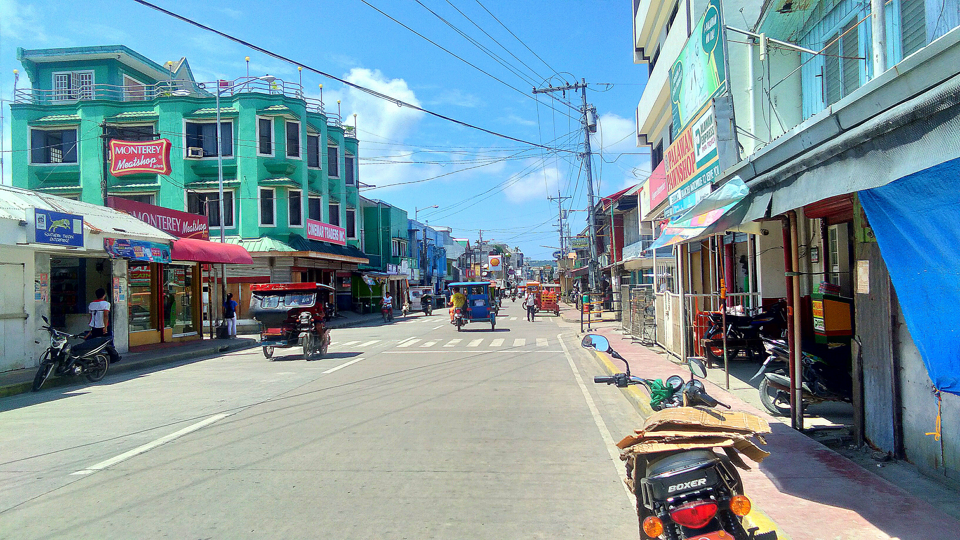 Lugay Street in 2019 (Guiuan, Eastern Samar)